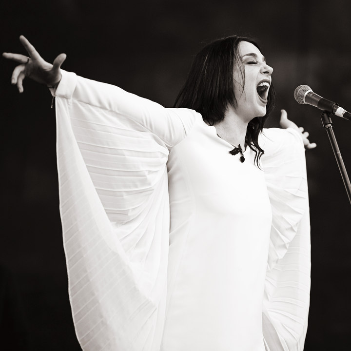 Aylin Aslim Van İcin Rock